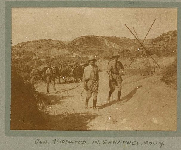 Album of annotated photographs, mainly comprising scenes of Egypt, but including Gallipoli and shipboard life en route to England.